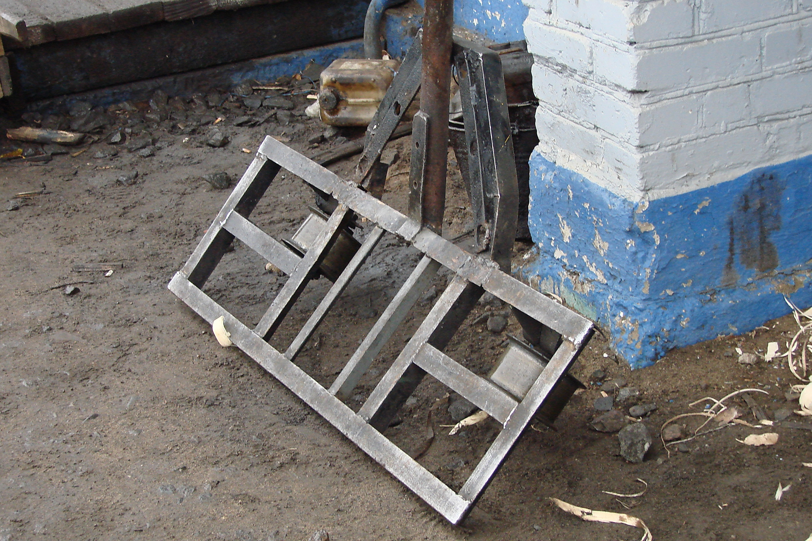 Russian Railways, waypoint cart